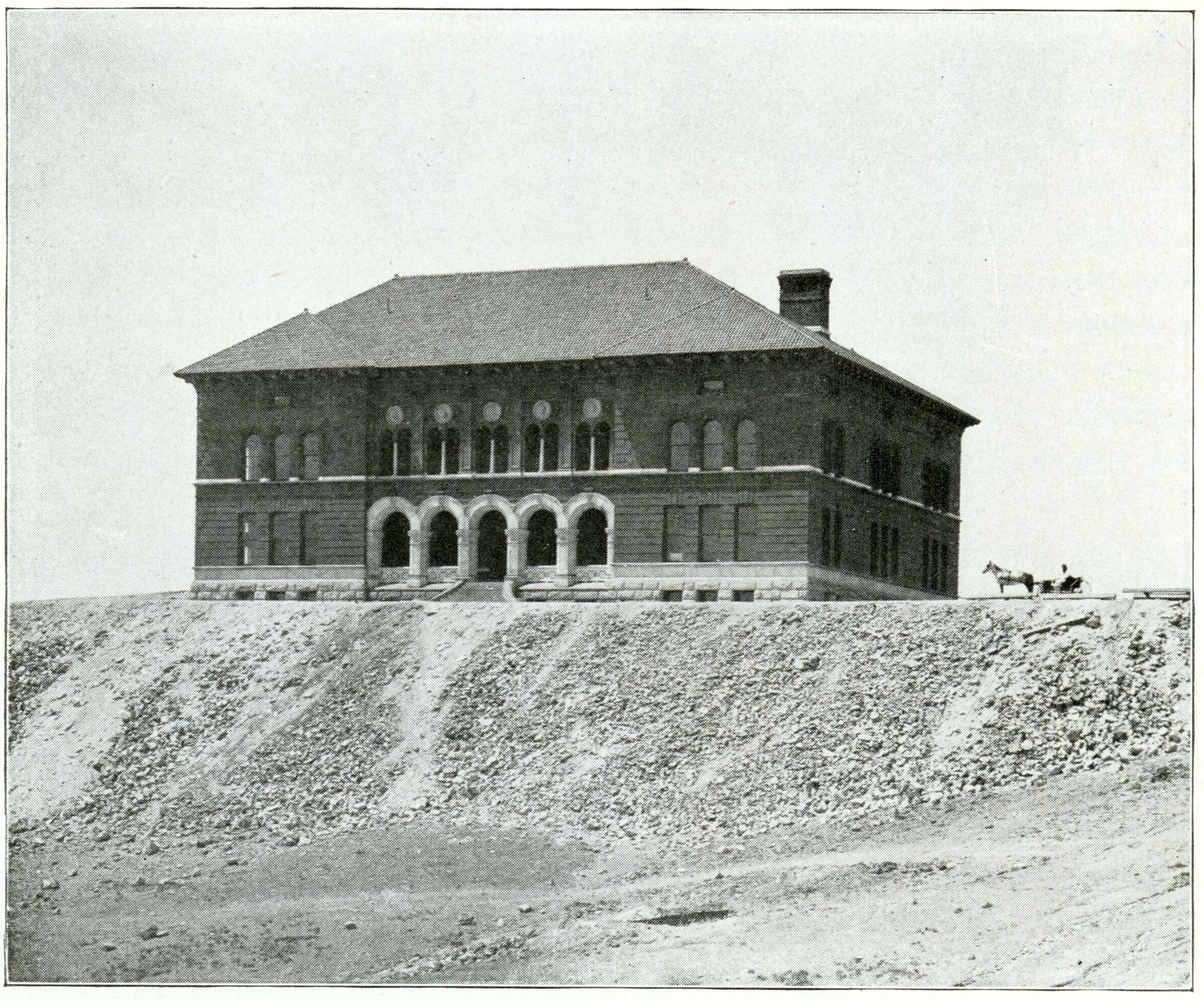 Original Montana Tech building (then Montana School of Mines)